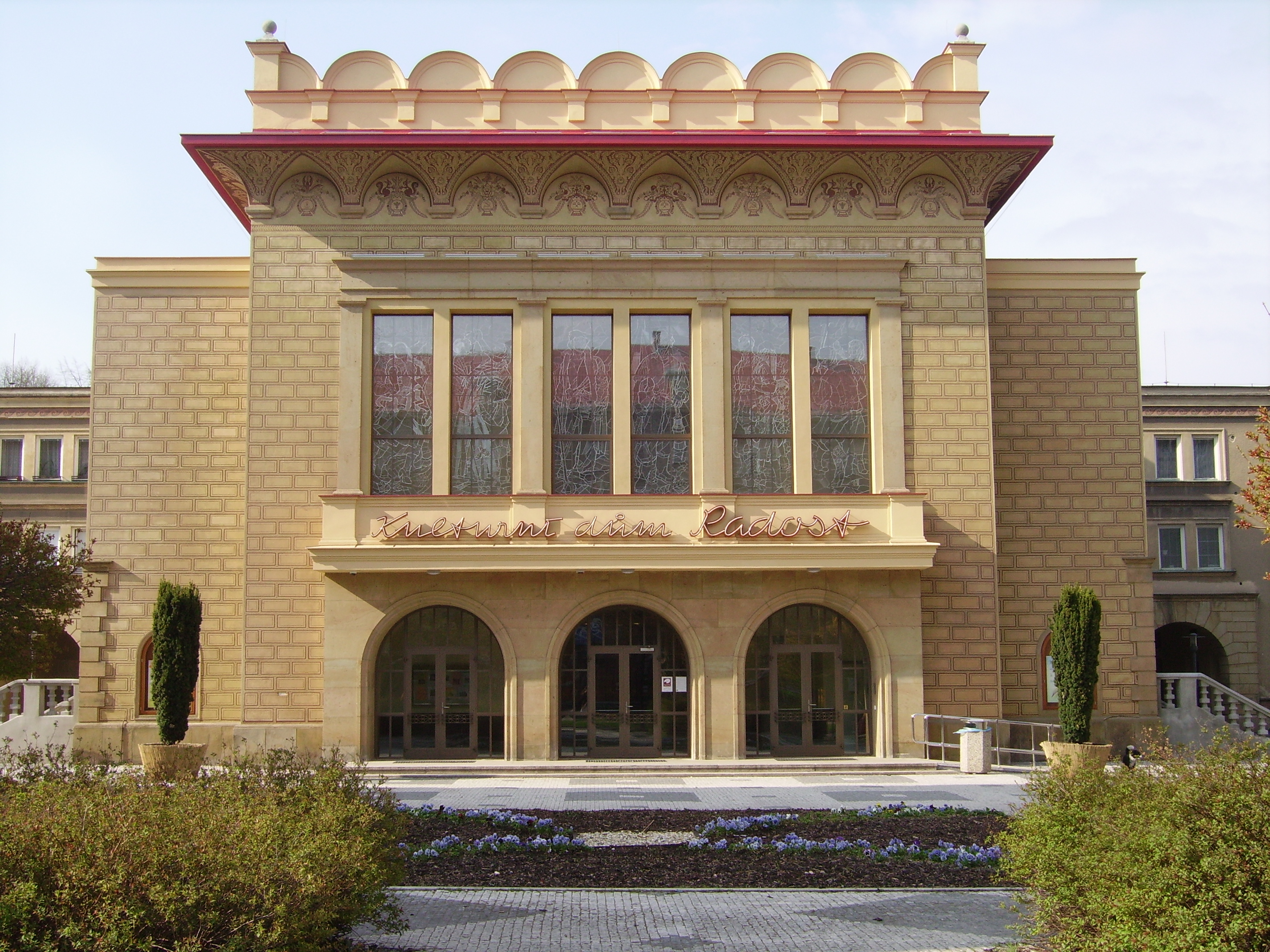 House of Culture "Radost" (Joy) in Havířov